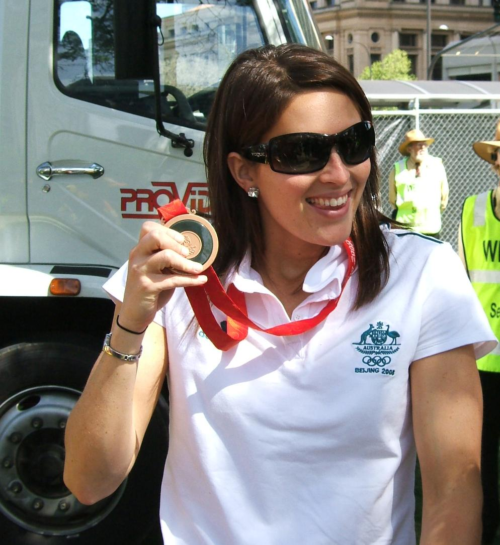 Suzie Fraser at the 2008 Olympic welcome home parade in Adelaide.